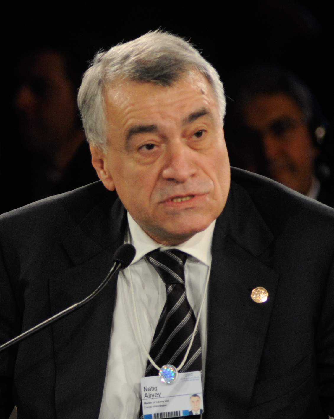 ISTANBUL, TURKEY, 5 June 2012 - Natiq Aliyev, Minister of Industry and Energy of Azerbaijan, speaks at the World Economic Forum on the Middle East, North Africa and Eurasia in Istanbul, 4-6 June 2012. Copyright World Economic Forum ( by Norbert Schiller